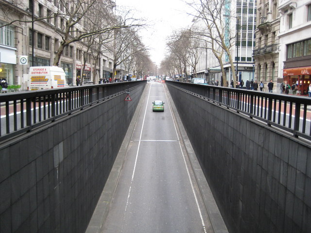 A301 Strand Underpass exit ramp